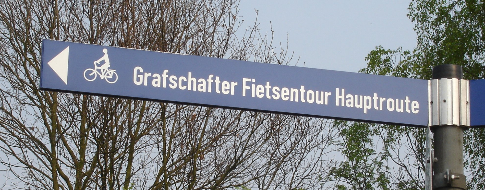 The picture shows the name of a bicycle route that crosses the Dutch - German border near Bad Bentheim and Nordhorn. The Dutch name "fiets" for bicycle has been used, also on the German side of the border.